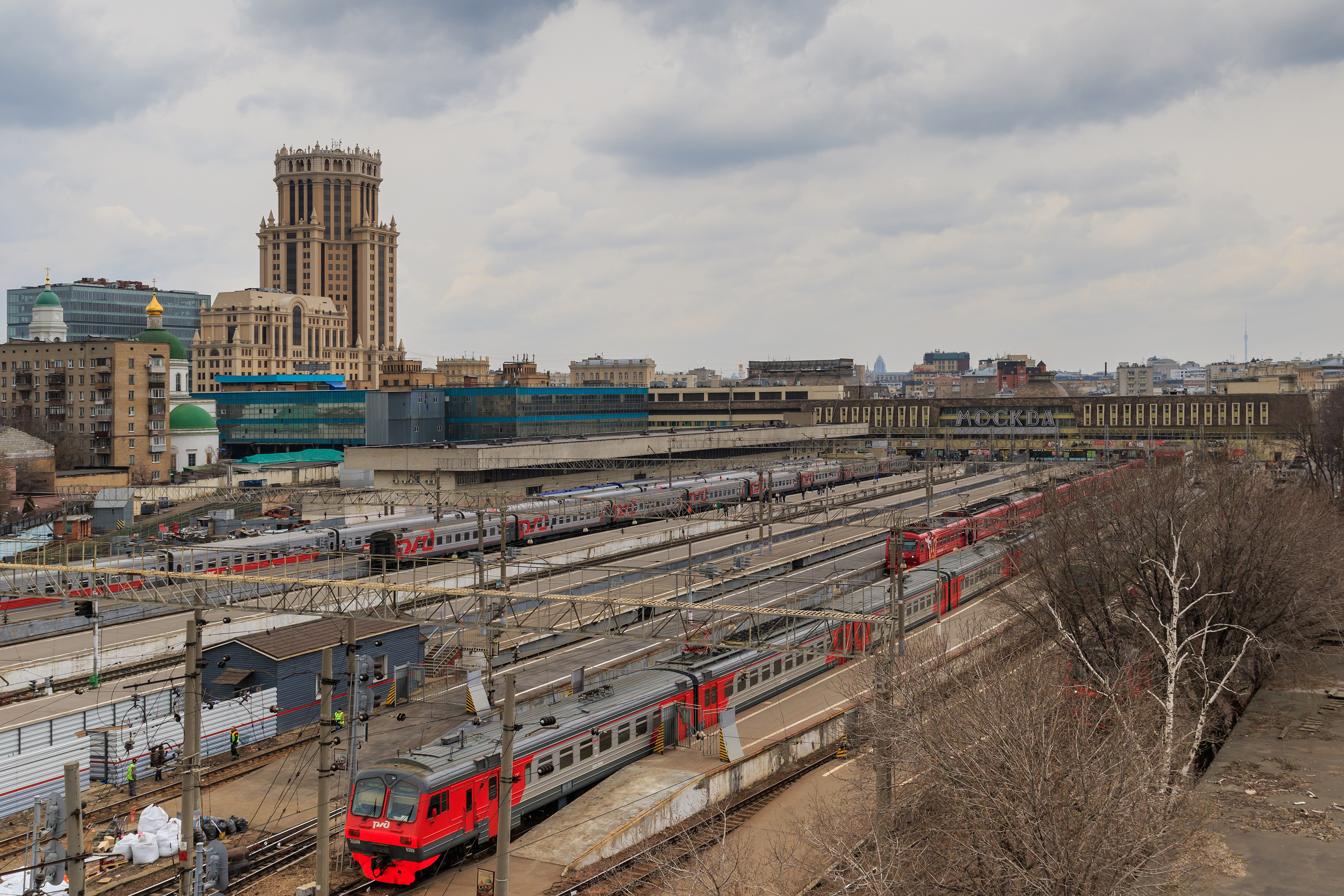 View of Paveletsky railway terminal (passenger platforms) in Moscow